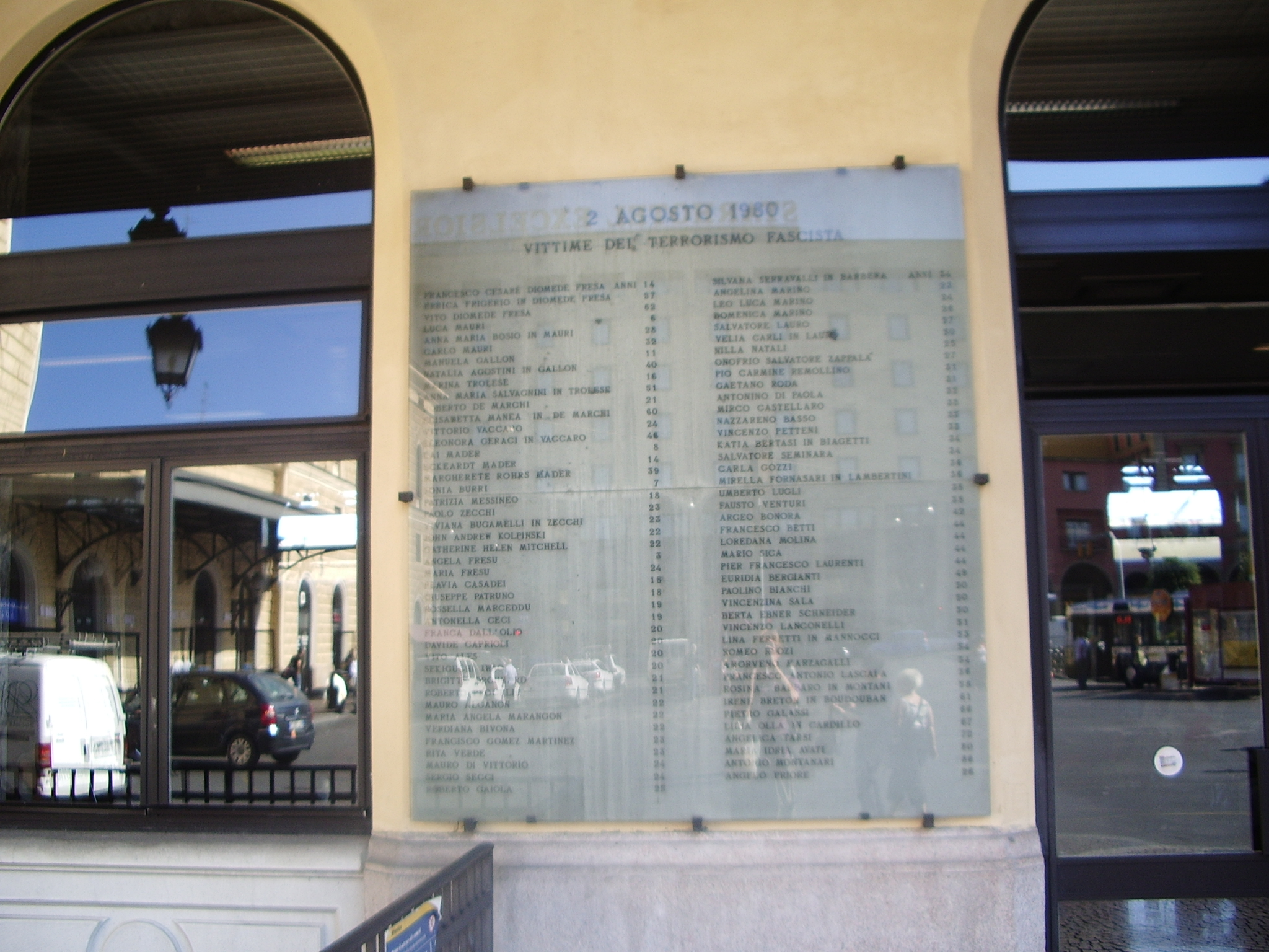 A picture of the plaque at Bologna Centrale. I took this picture this past summer.